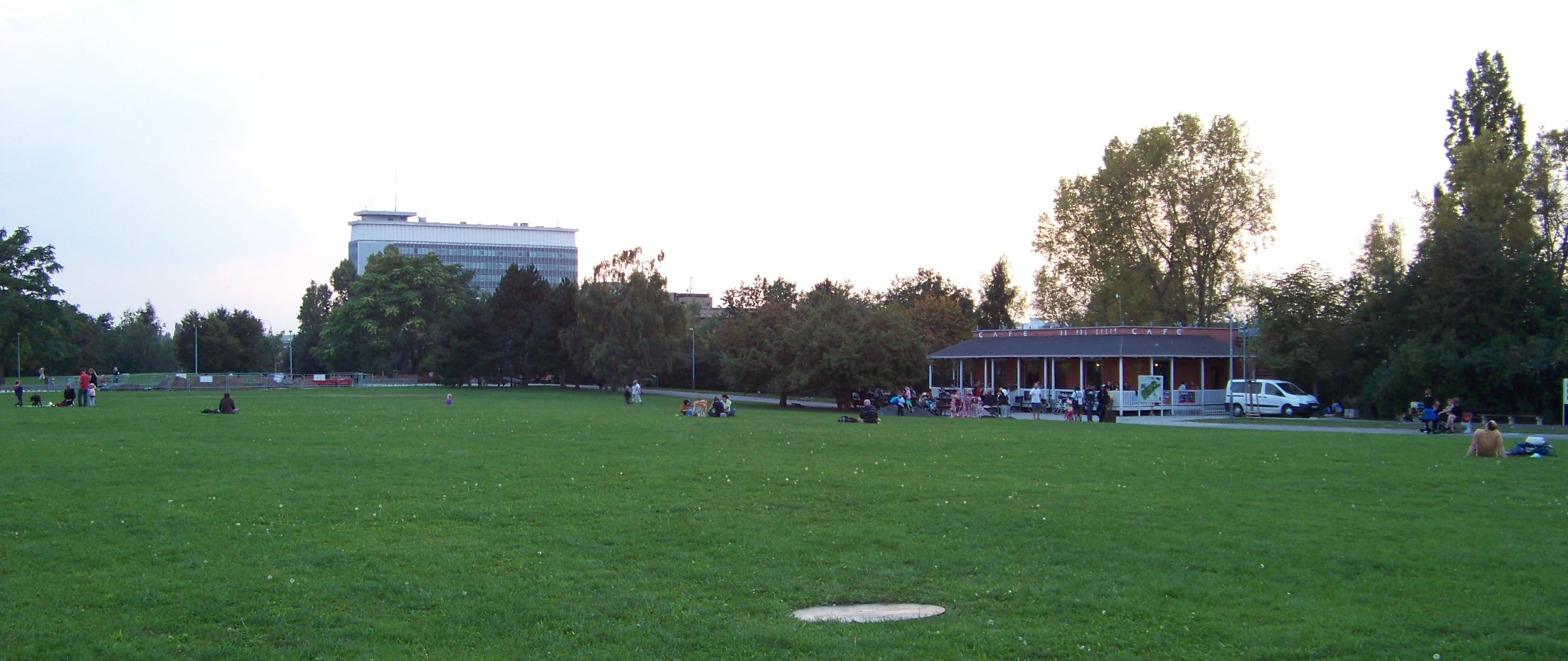 Prague-Nusle, the Czech Republic. Pankrác Central Park.